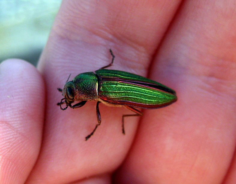 Buprestis (Cypriacis) aurulenta, golden buprestid beetle, found on Cannon Beach, OR